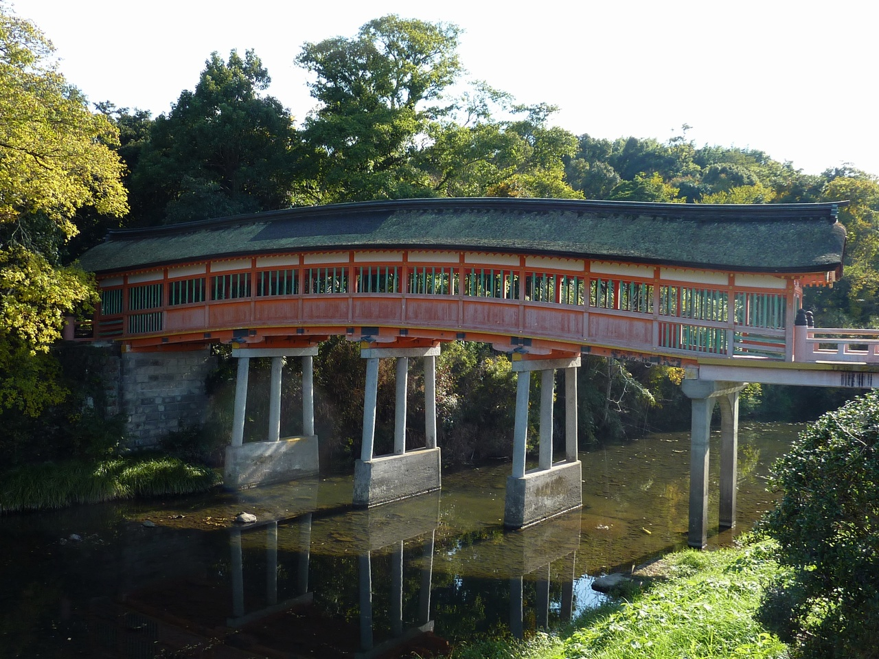 Usa Shrine - Kurehashi Bridge